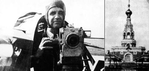 Russian Monument of San Stefano (right) & Fuat Uzkınay (left), the first Turkish filmmaker, who filmed the first Turkish movie Demolition of the Russian Monument in San Stefano in 14th November 1914 in Yeşilköy, Istanbul, TurkeyTürkçe: Ayastefanos Abidesi (sağda) & Fuat Uzkınay (solda), 14 Kasım 1914'te, Yeşilköy, İstanbul'da ilk Türk filmi Ayastefanos'taki Rus Abidesinin Yıkılışını çeken, ilk Türk Sinemacısıdır.